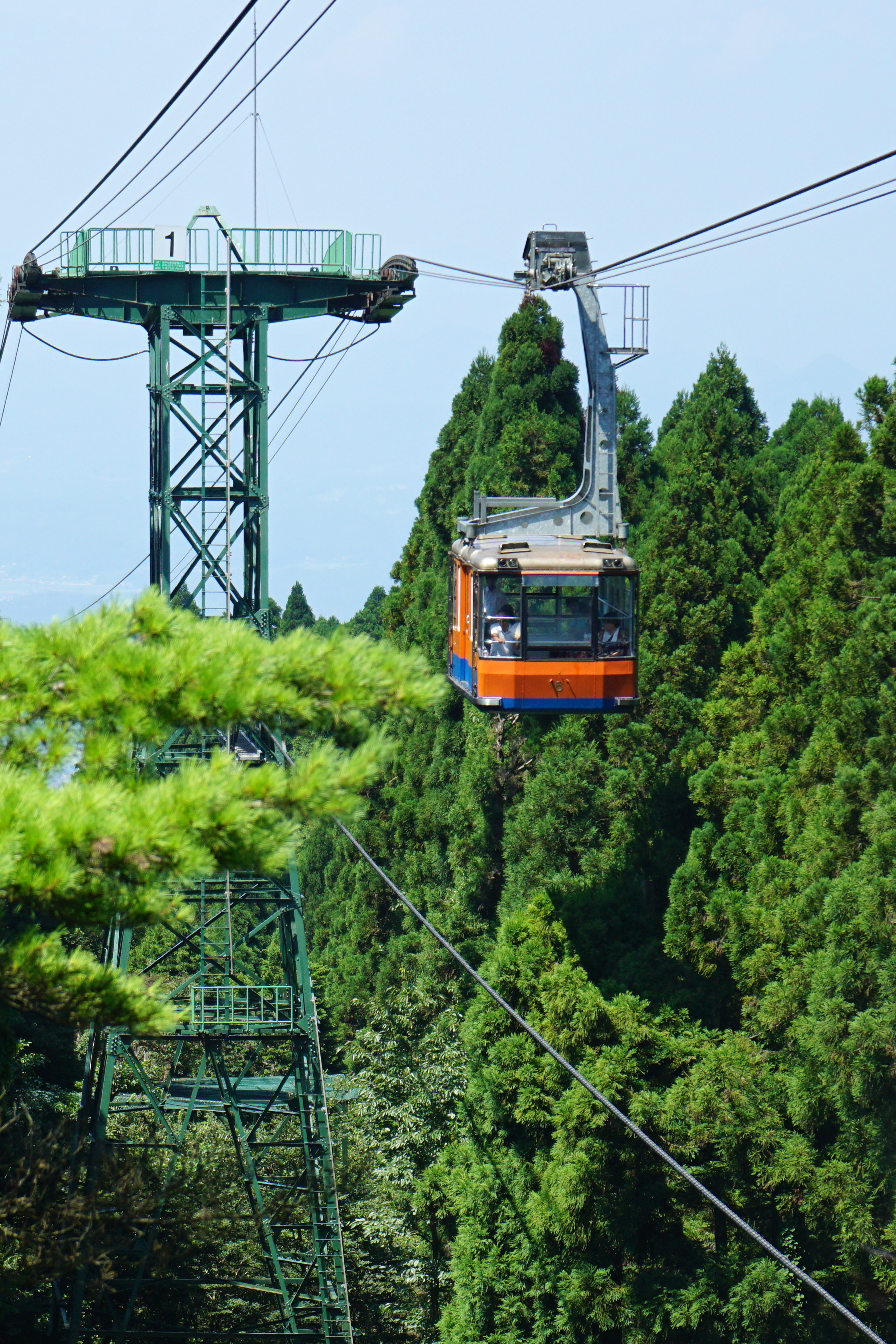 Rokkō Arima Ropeway in Kobe Hyogo prefecture, Japan